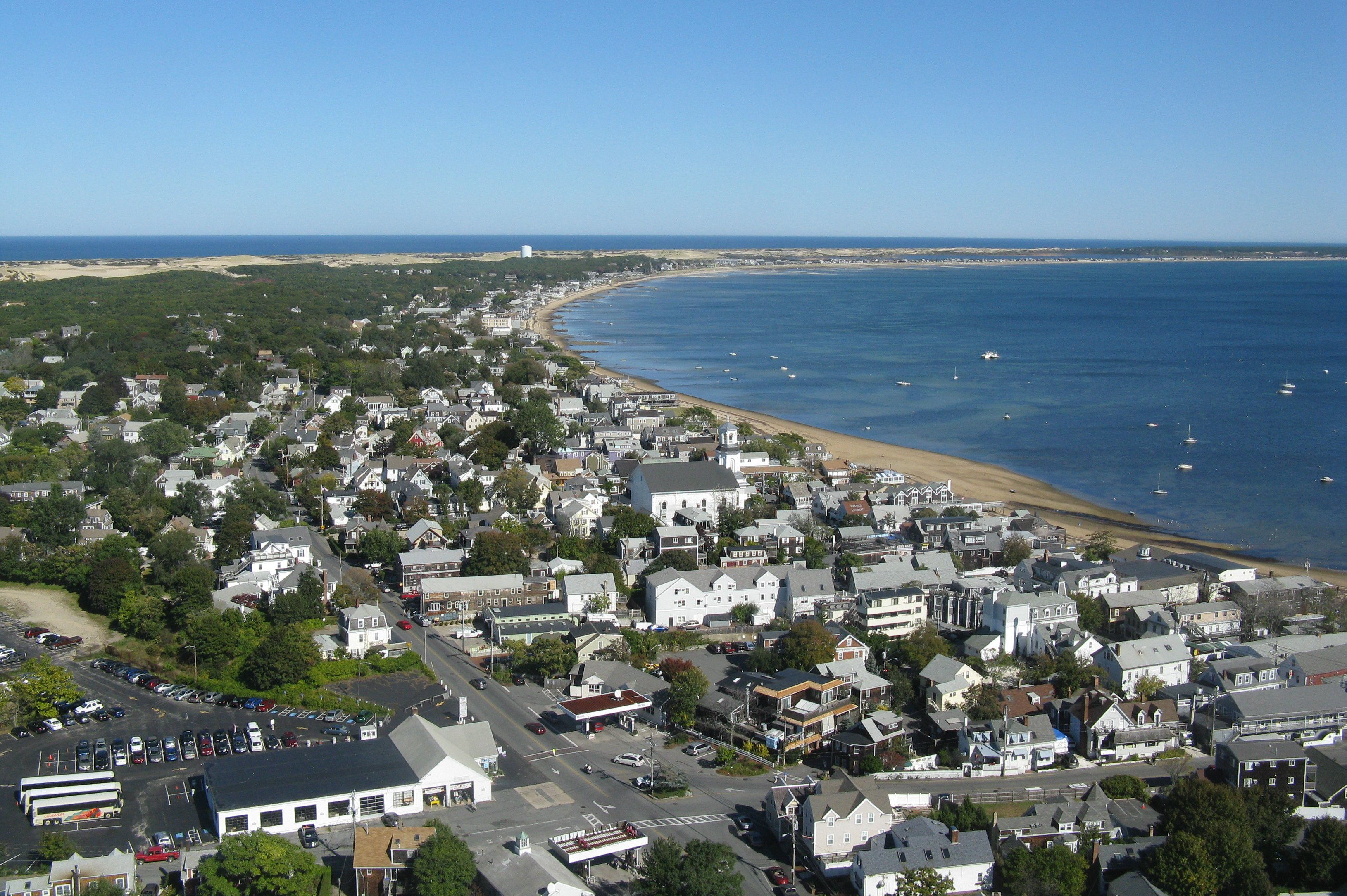 View of Provincetown from the top of the Pilgrim Monument, looking east, Provincetown Massachusetts